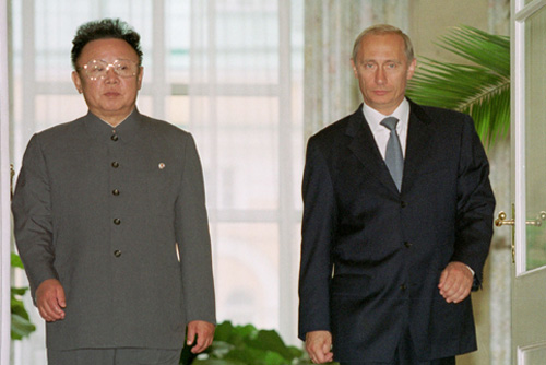 THE GRAND KREMLIN PALACE, MOSCOW. President Putin meeting with North Korean leader Kim Jong Il.